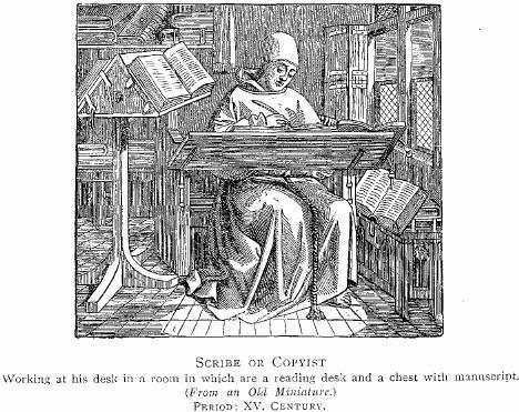 Illustration from Illustrated History of Furniture, From the Earliest to the Present Time from 1893 by Litchfield, Frederick, (1850-1930)